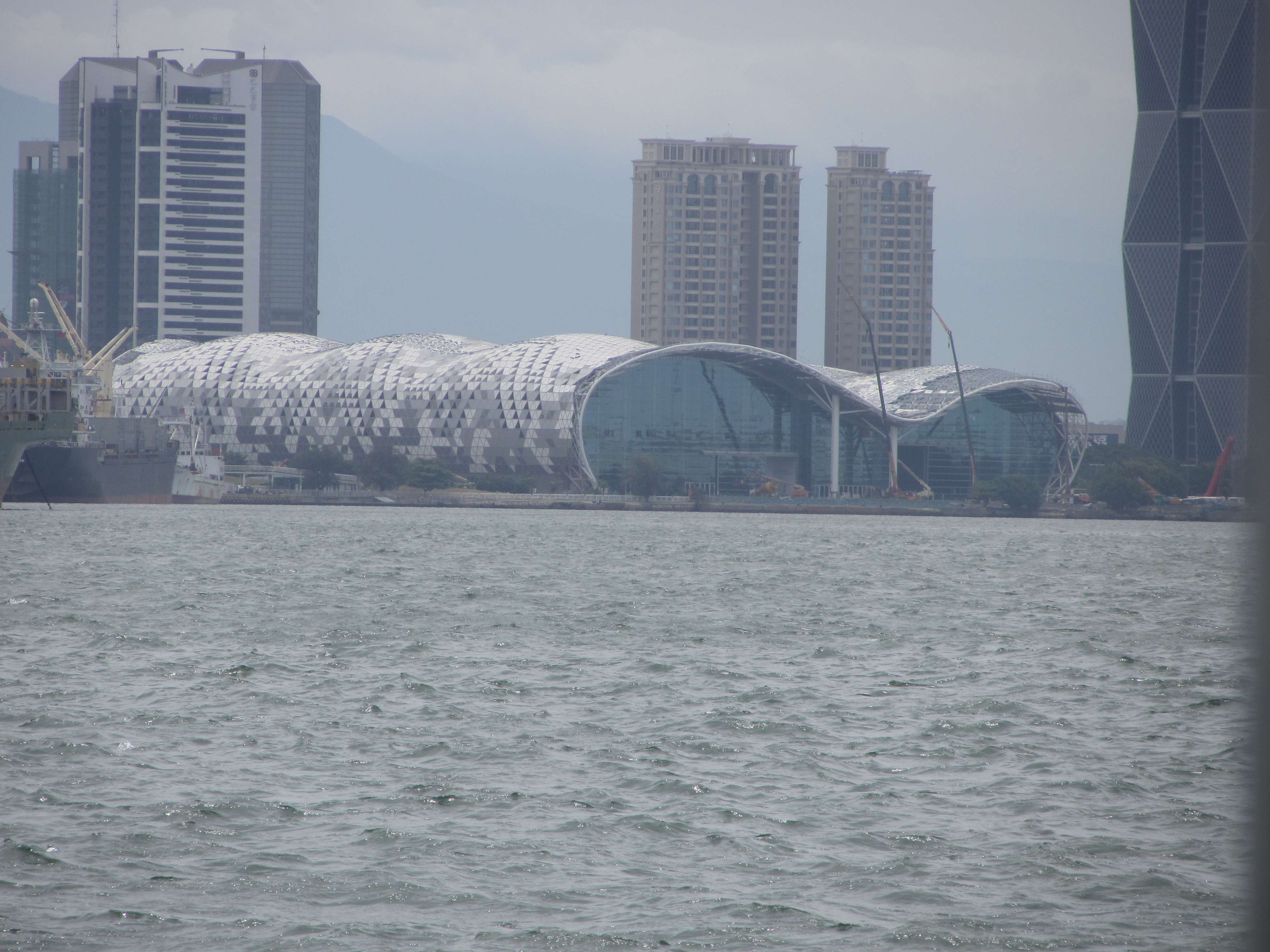 Kaohsiung Exhibition Center, Qianzhen District, Kaohsiung City, Taiwan